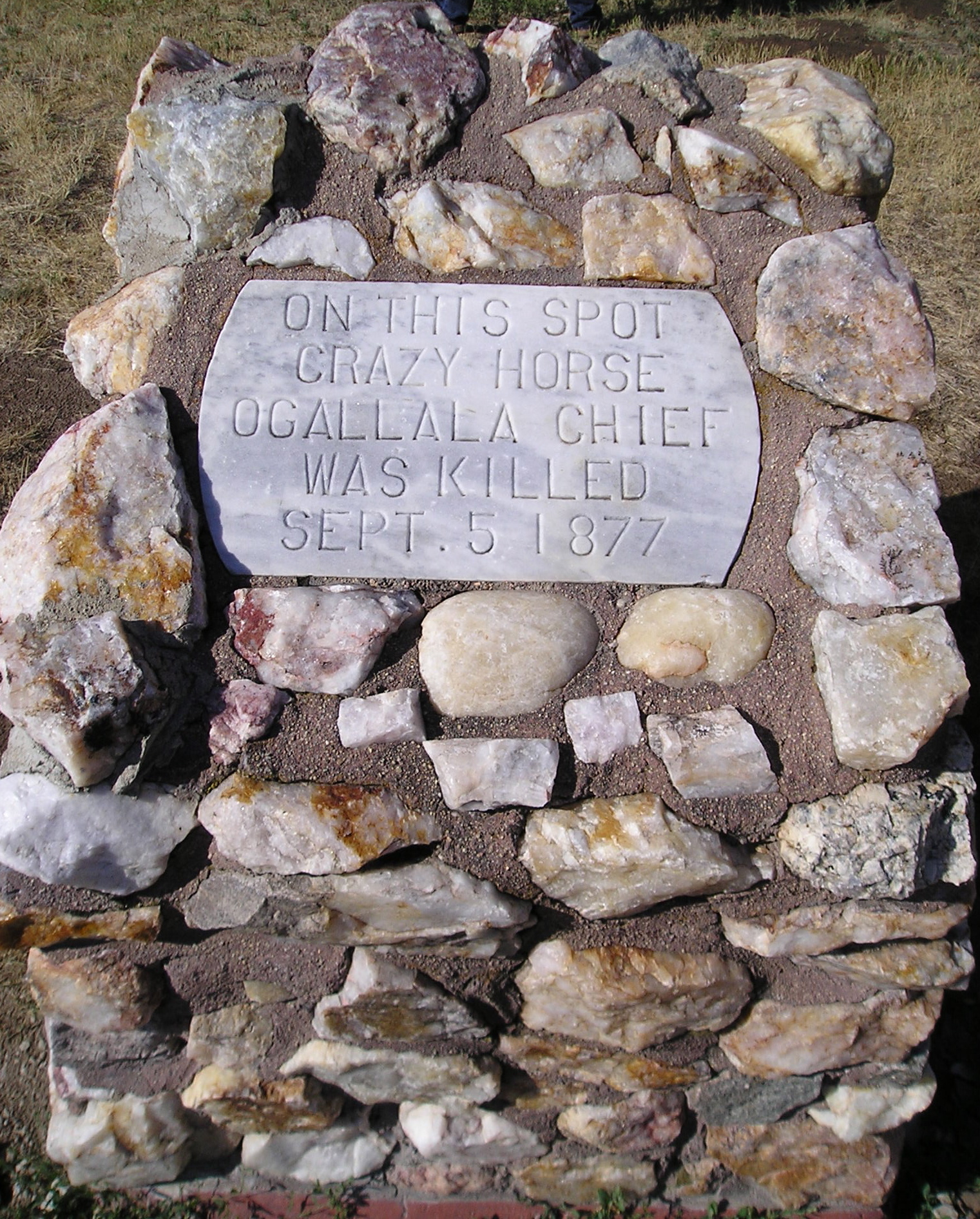 Monument to Crazy Horse, an Oglala Lakota leader, located in Nebraska. Credits I took this picture in July 2006.